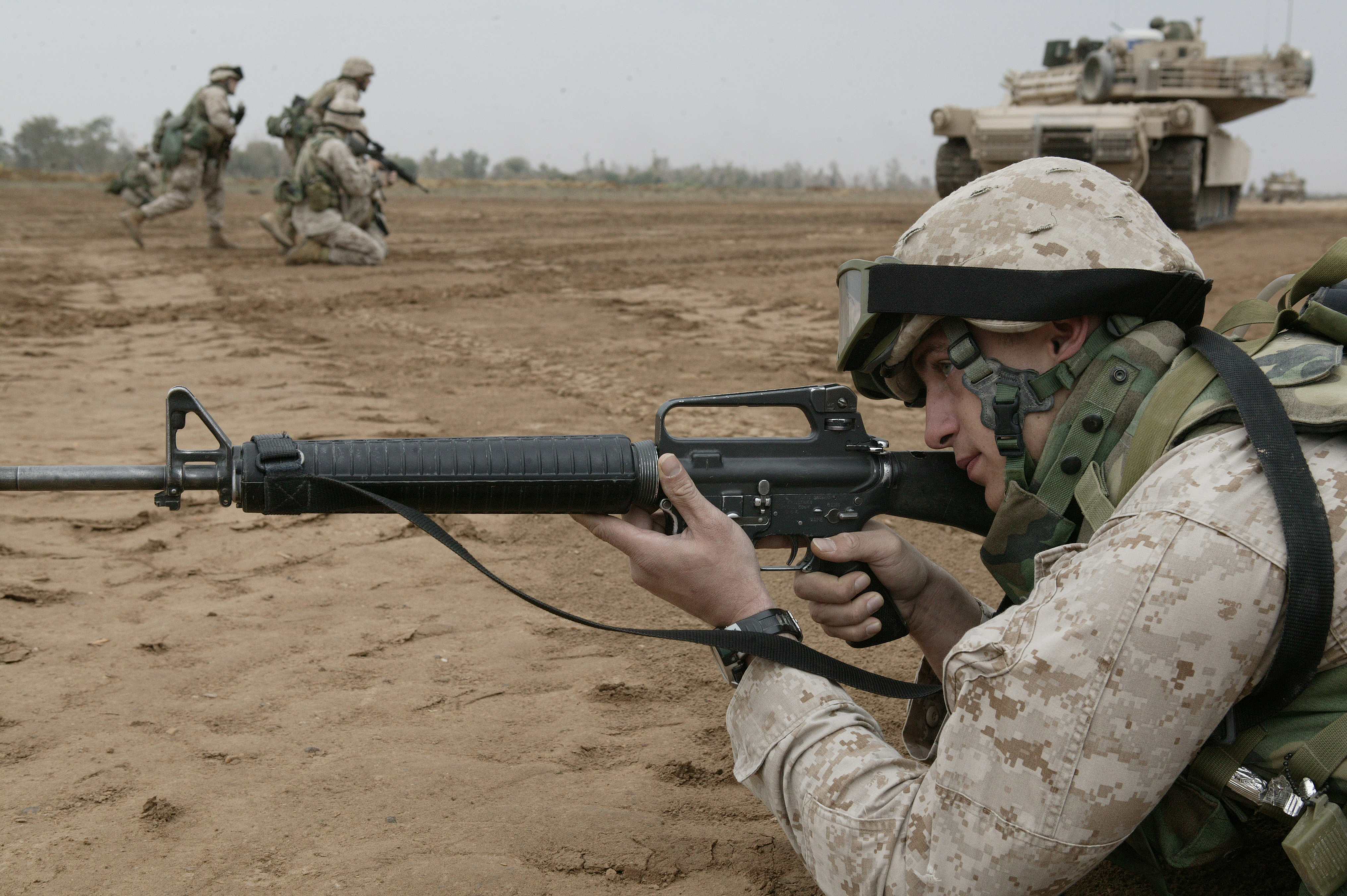 Caption: A Marine with Company I, 3rd Battalion, 5th Marine Regiment, sights in on his M-16A2 automatic service rifle during tank integration training with Company C, 2nd Tank Battalion, at Camp Baharia, Iraq, Nov. 2. Photo by: Sgt. Luis R. Agostini Photo ID: 200411334517 Submitting Unit: 1st Marine Division Photo Date:11/02/2004